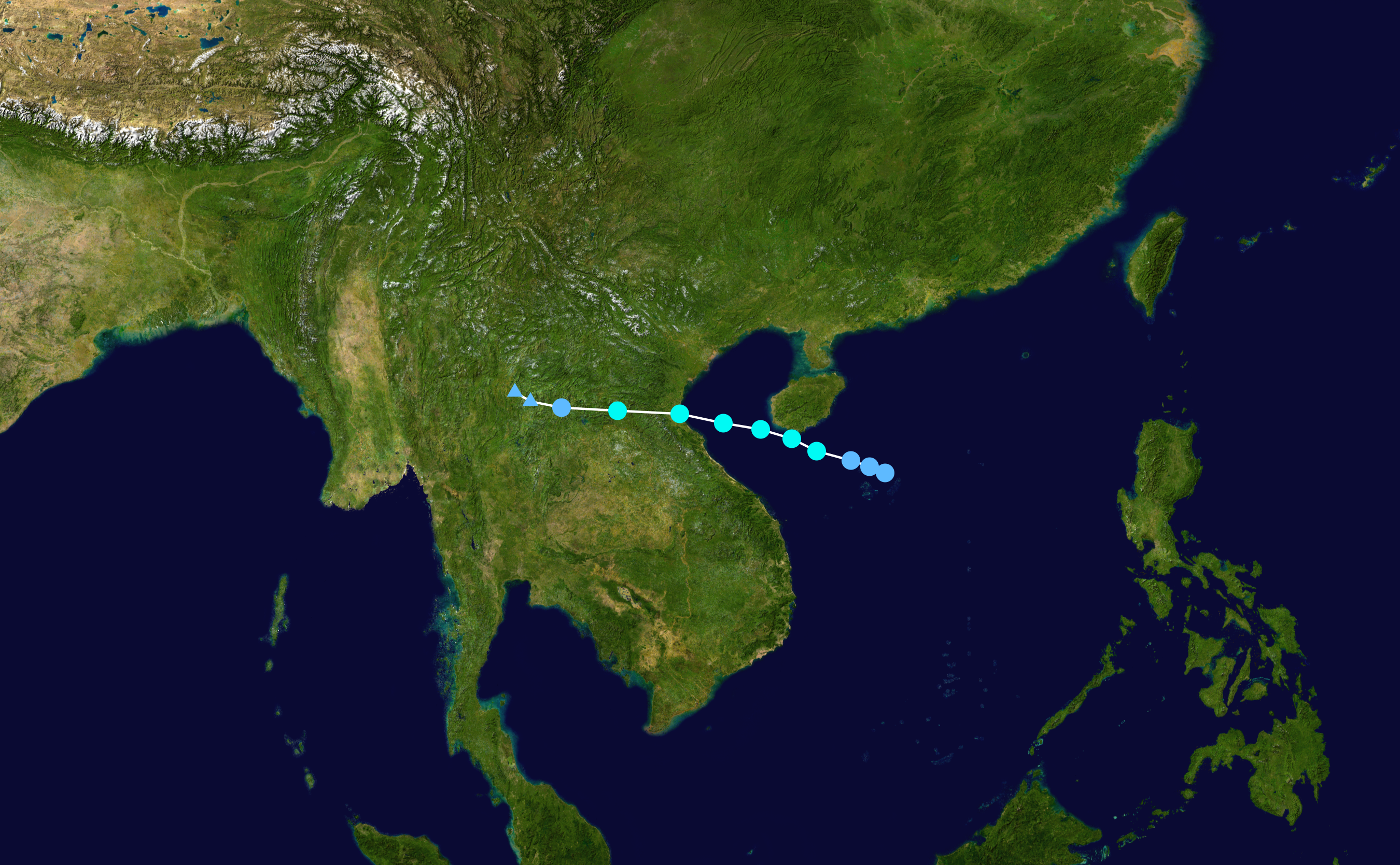 Track map of Severe Tropical Storm Talas of the 2017 Pacific typhoon season. The points show the location of the storm at 6-hour intervals. The colour represents the storm's maximum sustained wind speeds as classified in the Saffir–Simpson scale (see below), and the shape of the data points represent the nature of the storm, according to the legend below. Saffir–Simpson scale Tropical depression≤38 mph≤62 km/h Category 3111–129 mph178–208 km/h Tropical storm39–73 mph63–118 km/h Category 4130–156 mph209–251 km/h Category 174–95 mph119–153 km/h Category 5≥157 mph≥252 km/h Category 296–110 mph154–177 km/h Unknown Storm type Tropical cyclone Subtropical cyclone Extratropical cyclone / Remnant low / Tropical disturbance / Monsoon depression